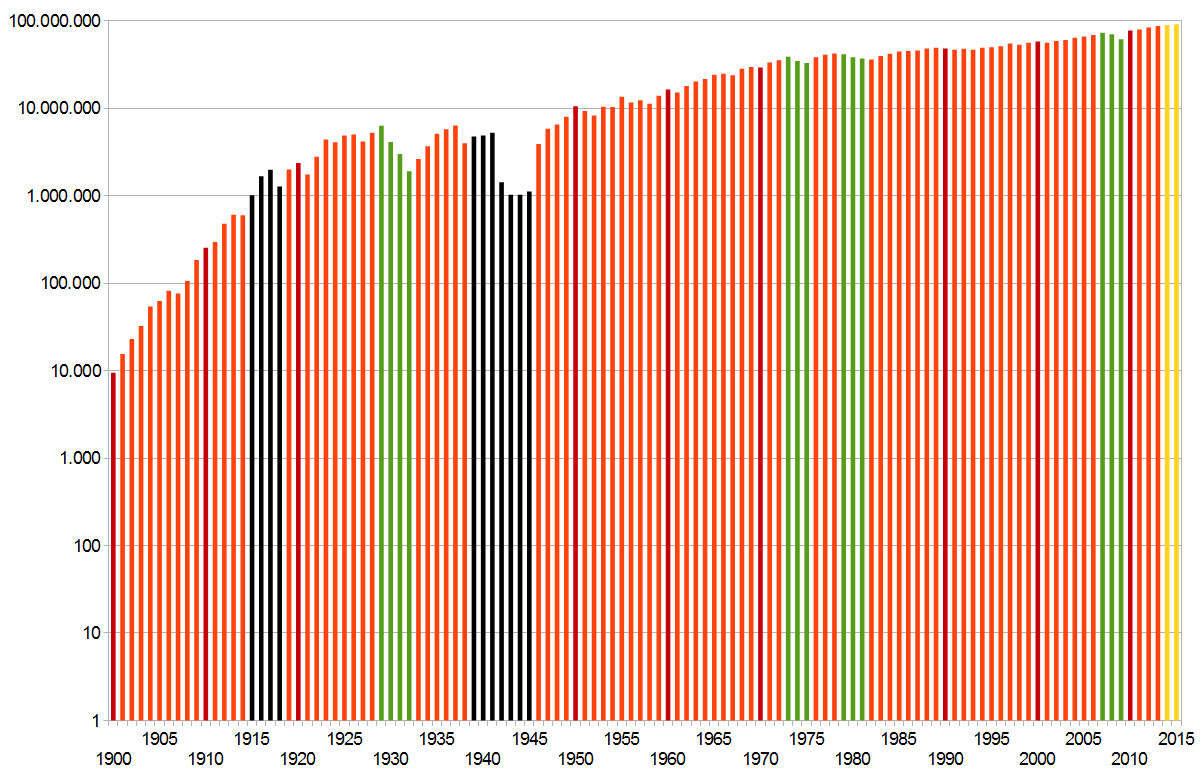 Graph of the global automotive production 1900-2015 based on Wirtschaftszahlen_zum_Automobil#Gesamt; years of both world Wars in black and years of international economic crises in green; dates of 2014 and 2015 estimated.